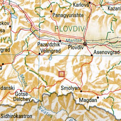 Bulgaria 1994 CIA map, city: part of the map Bulgaria_1994_CIA_map.jpg This image is in the public domain because it contains materials that originally came from the United States Central Intelligence Agency's World Factbook.